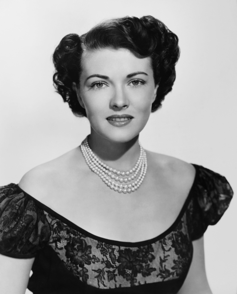 A promotional shot of Paula Raymond